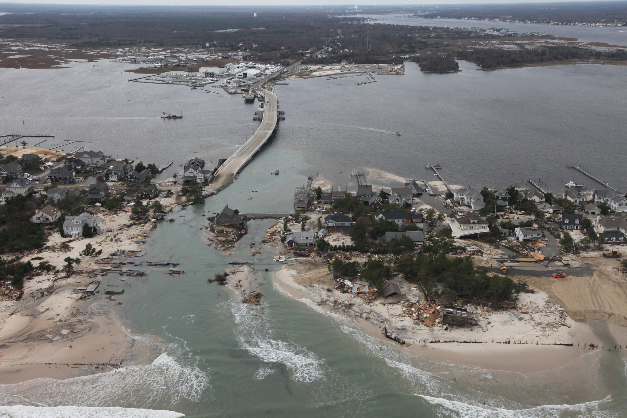 Aeiral shot of Mantoloking, NJ after Hurricane Sandy